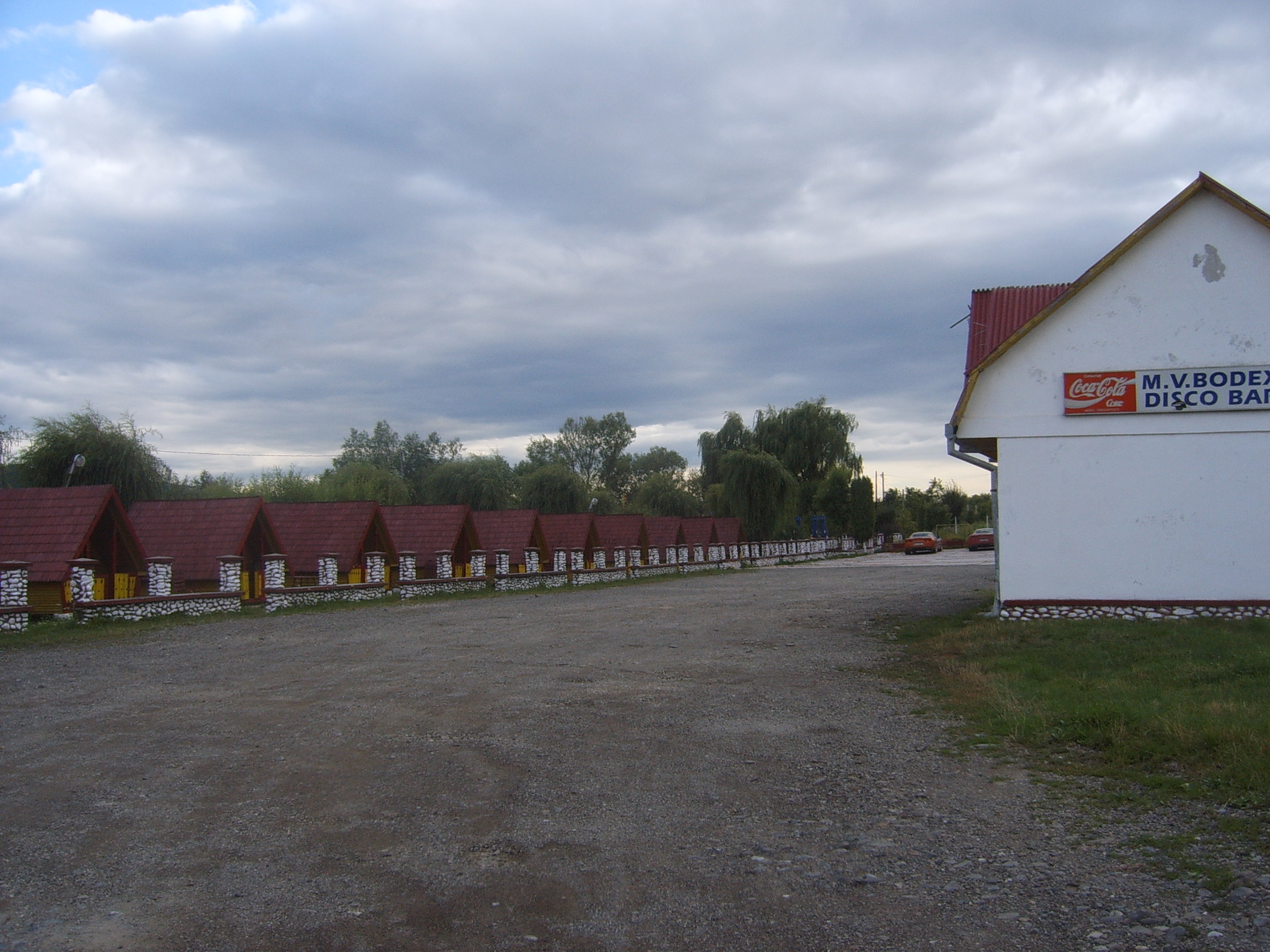 Night-club in Unirea. There is a strict zero-tolerance alcohol policy in Romania: the small houses on the left are used by the clients to wait before being again authorized to drive.